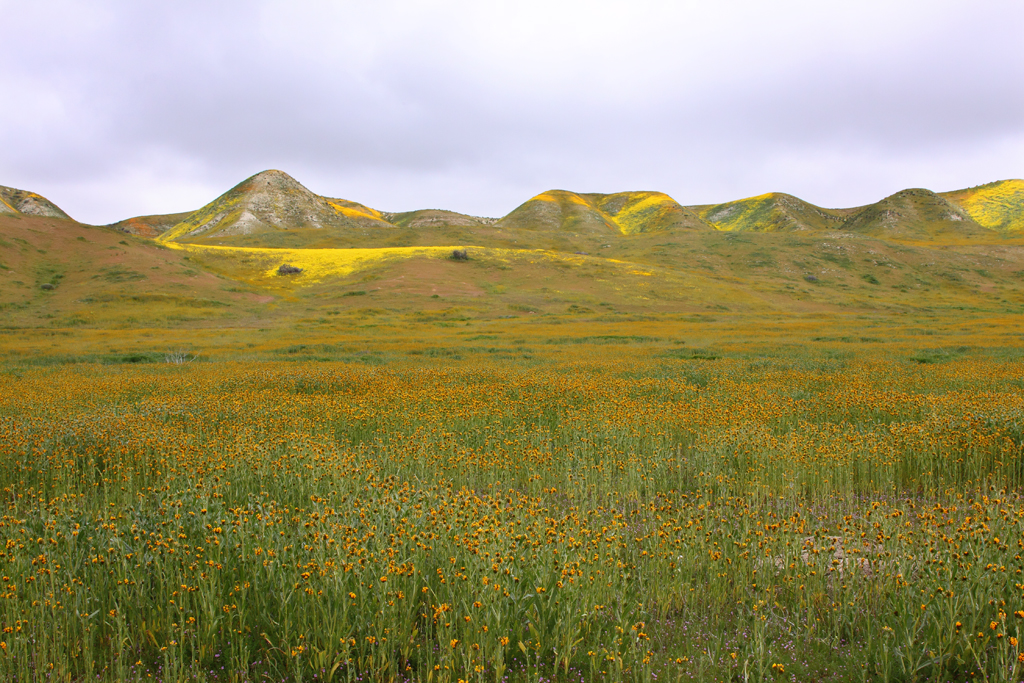 The blooms in the foreground are fiddlenecks (Amsinckia sp.), with bright yellow patches of hill-side daisies (Monolopia lanceolata) in the backdrop. According to the docents at the visitor center, this year was the best year for wild flowers in the Carizzo plain since 2005. California, USA.